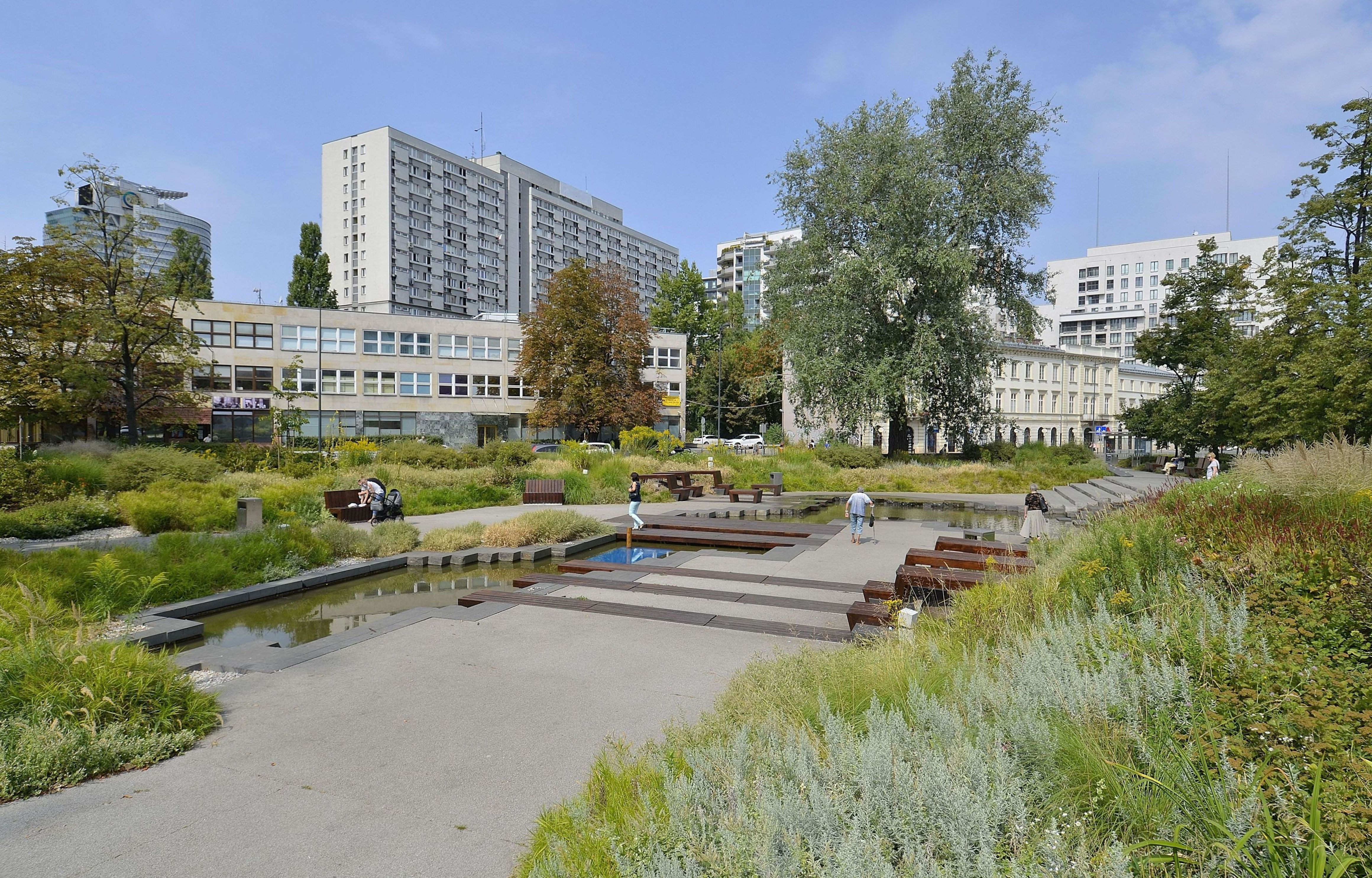 Grzybowski Square in Warsaw